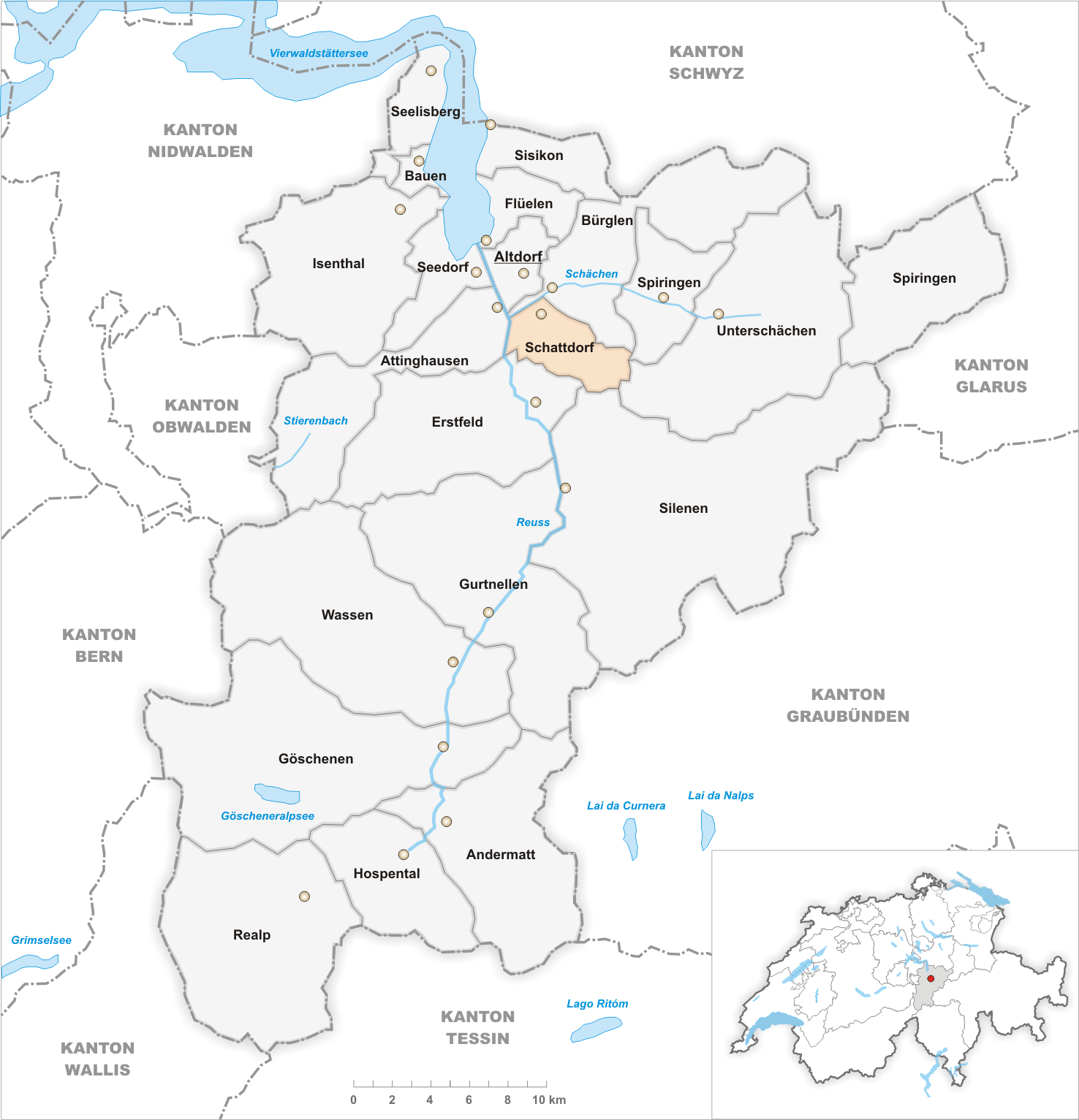 Municipality Schattdorf